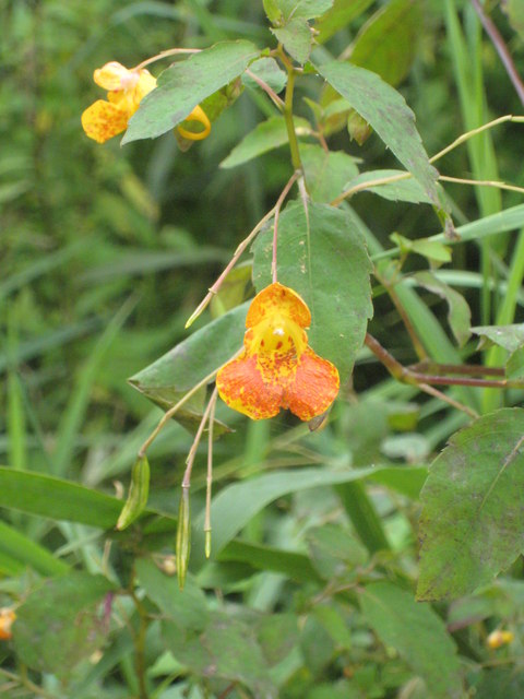 Orange Balsam or Jewelweed, Impatiens capensis, flowering beside the River Thames south of Cholsey, Oxfordshire. Like Himalayan Balsam, Impatiens glandulifera, this riverside plant is a foreign introduction, but from North America. It occurs frequently along the Thames but is not as invasive as Himalayan Balsam. Because the ripe seed pods explode on contact it is also known as 'Touch-me-not'.